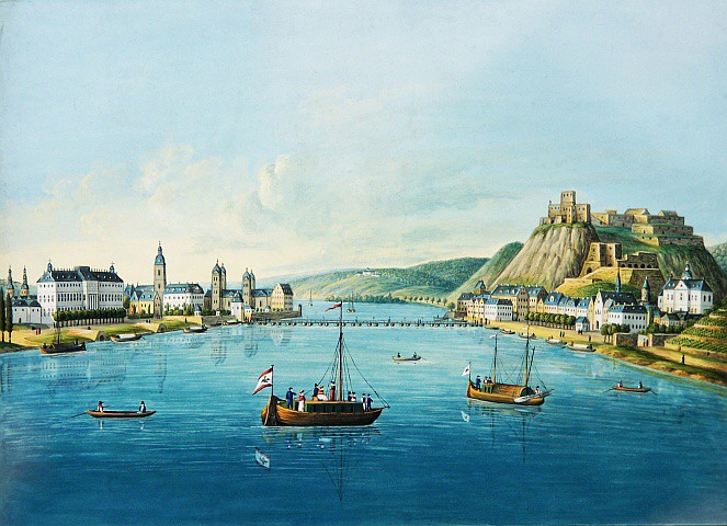 From a fictitious point of view (heightened and in the middle of the river Rhine) the view goes to the left bank of the city Koblenz, beginning with the twin towers of the church Liebfrauenkirche, over the castle Kurfürstliches Schloss and the Basilika Saint Castor up to the German-manor-house from the German Order. As counterweight to it on the right side the town Ehrenbreitstein with the fortress Ehrenbreitstein. Both points are connected by the 1819 built and today no longer existing ship bridge, which the picture in the horizontal structured. In the background the Rhine-Island Niederwerth in front of the hills of the Westerwald. Above the island the formerly monastery Besselich. The picture belongs to a series of Rhine-Views around 1829